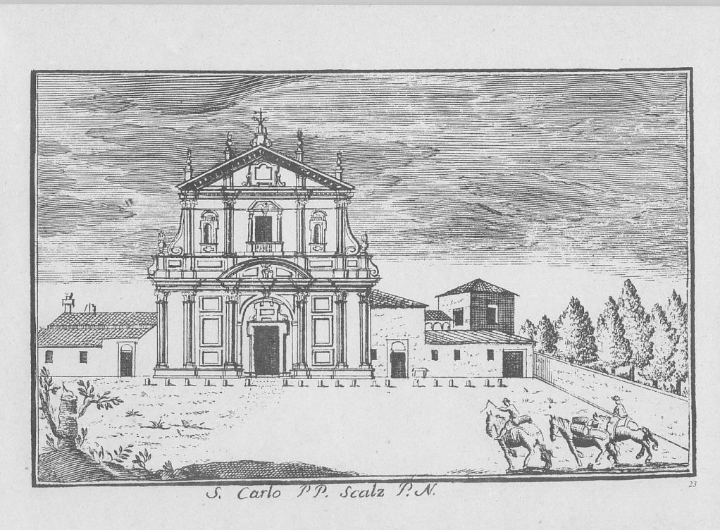 Demolished church of San Carlo, via Moscova, Milan from Marcantonio Dal Re